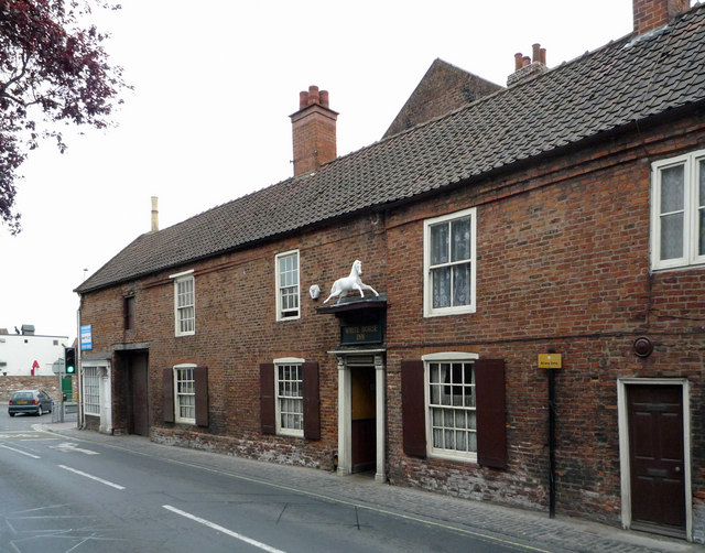 The White Horse Inn - 22 Hengate, Beverley, East Riding of Yorkshire, England.The White Horse Inn is popularly known as "Nellies" - for further information